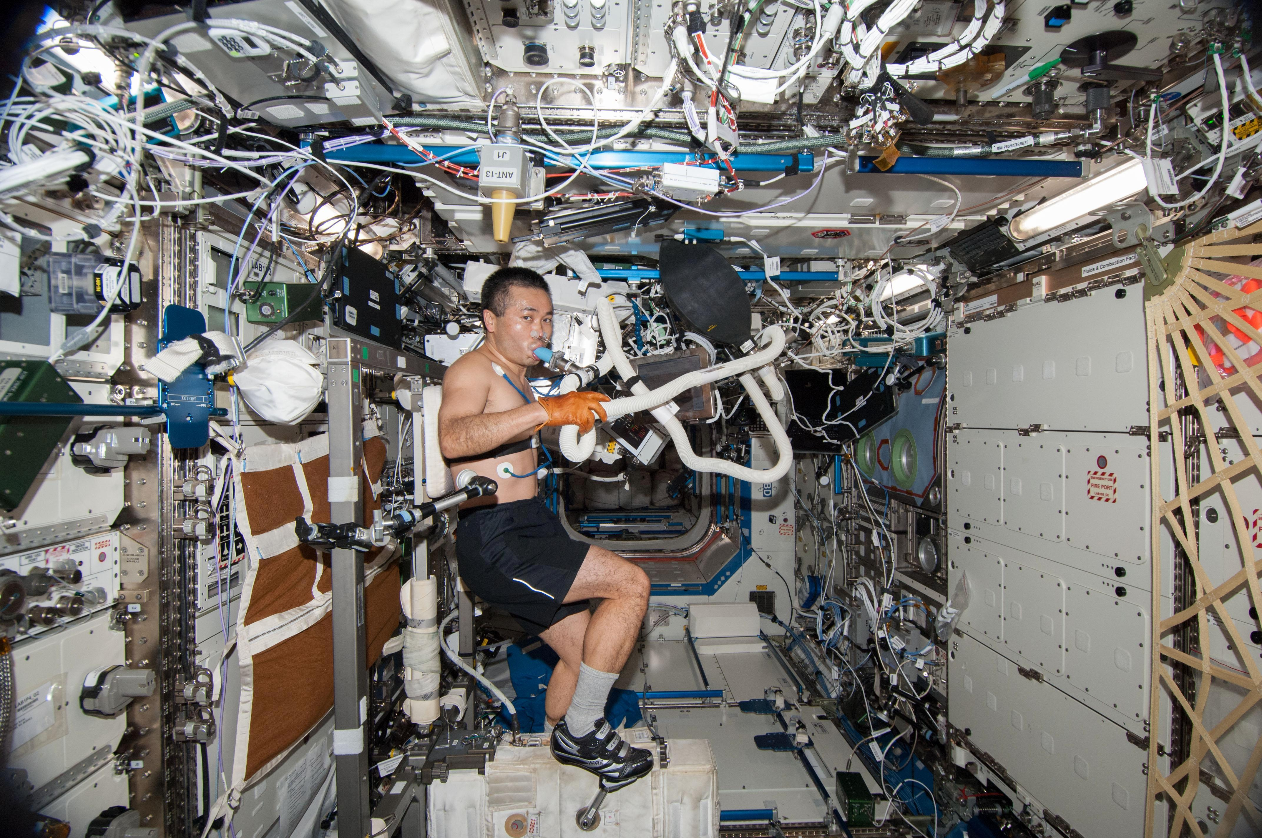 JAXA astronaut Koichi Wakata, Expedition 38 flight engineer, performs a VO2max session.